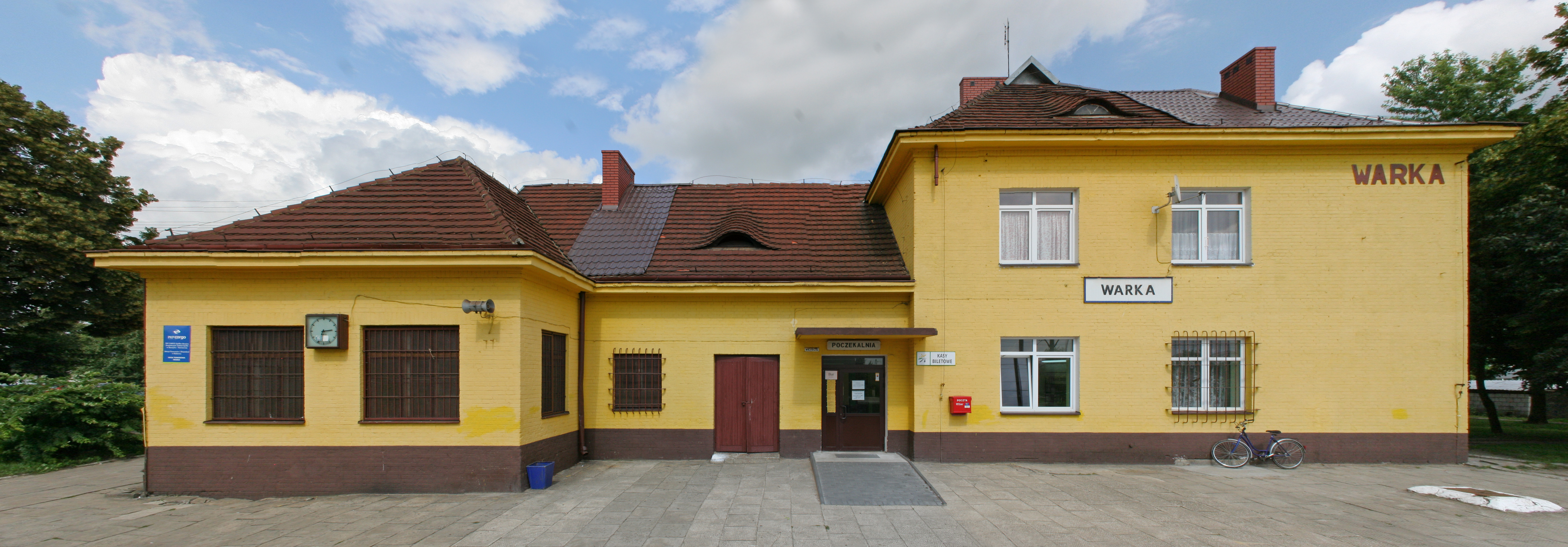 Railway station in Warka.